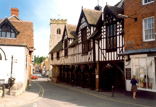 The Guildhall, Much Wenlock. The oldest part is the medieval prison. A courthouse was built in 1540, following the dissolution of the monastery, and a Council Chamber added over the prison in 1577. The extension over the passageway on the right was built in 1868. The town council still meets here once a month (from leaflet published in 1999).